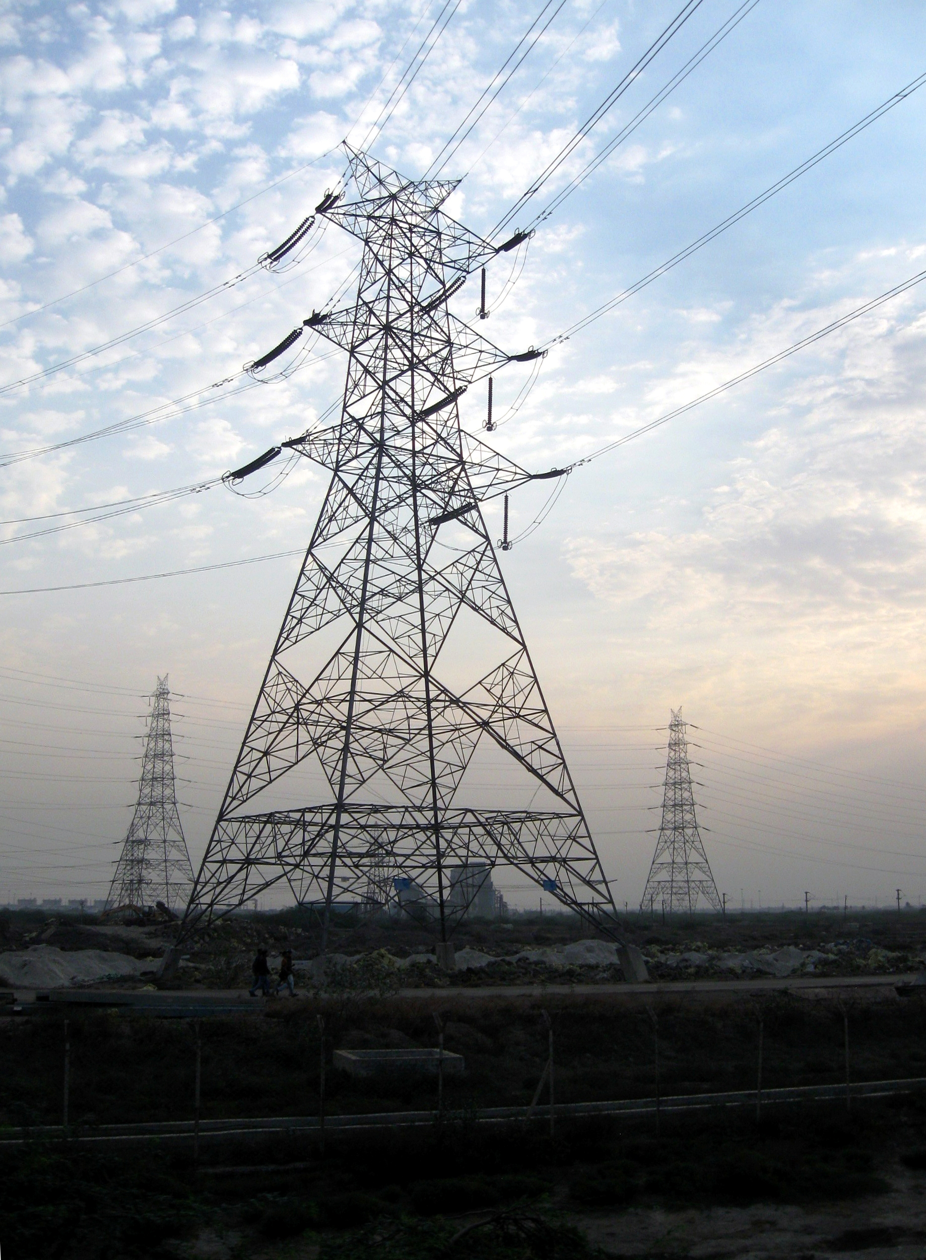 A tower supporting a 220 kV line near Ennore